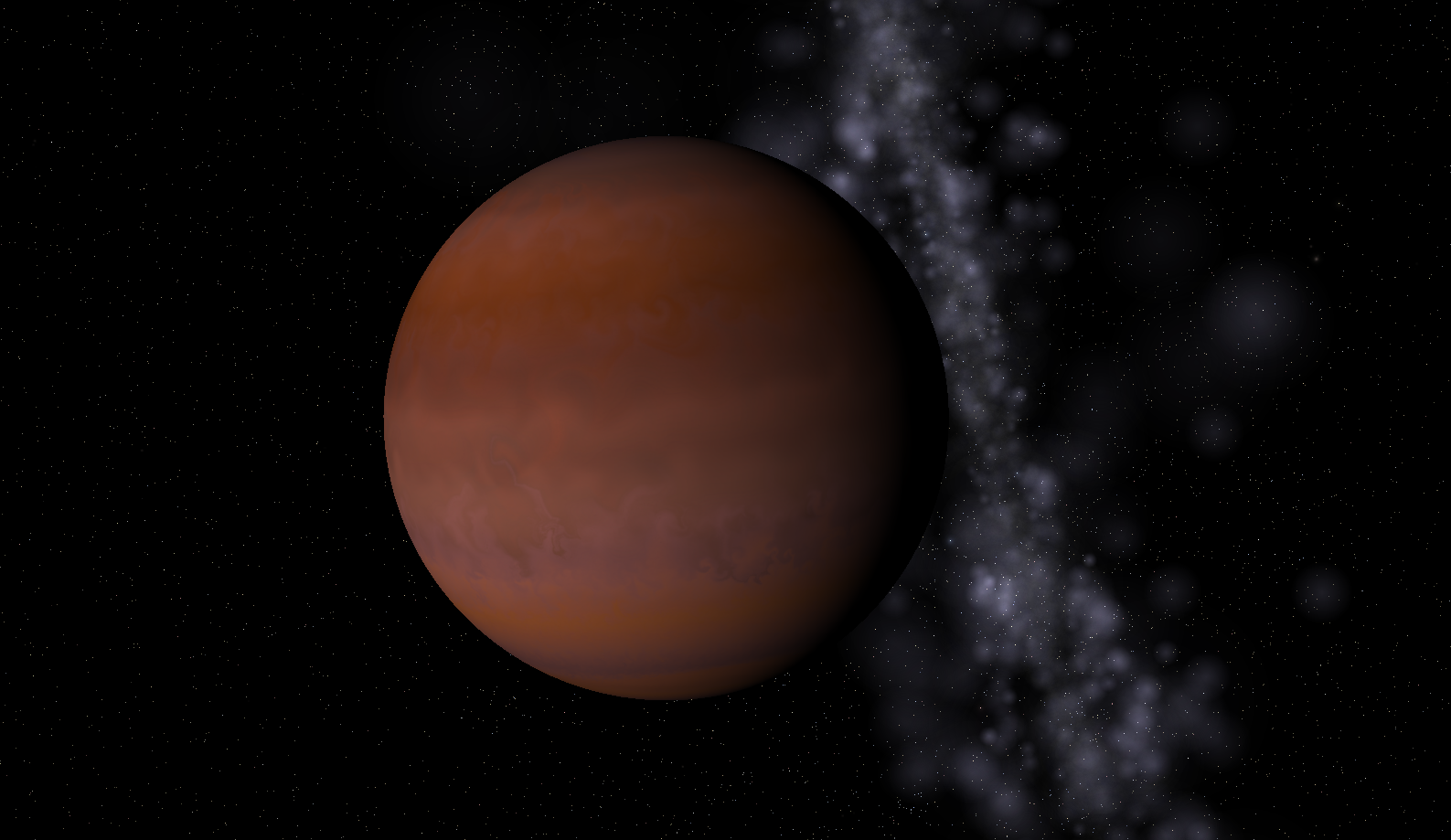 possible "hot ice" view of Gliese 581 / b